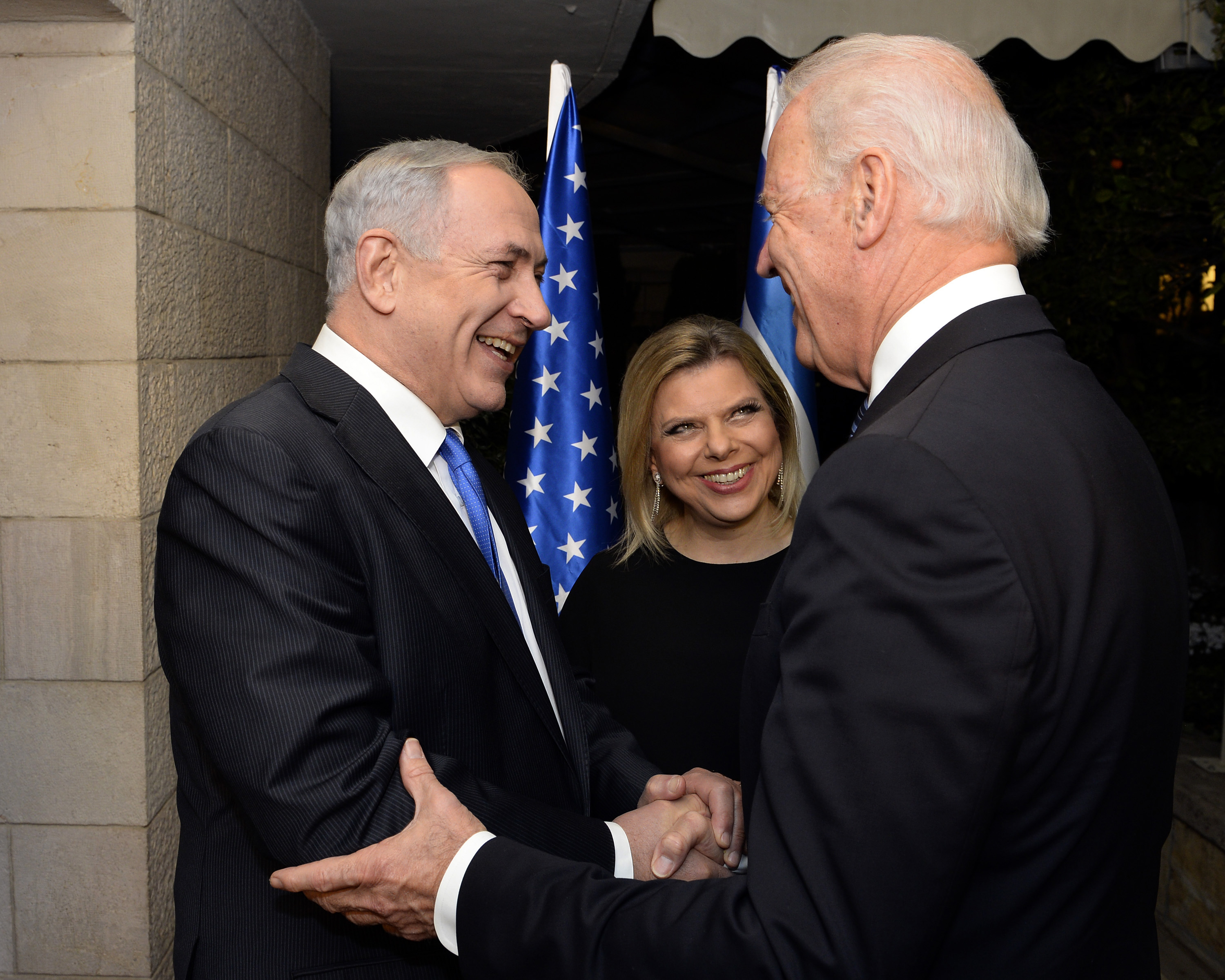 Vice President Joe Biden is greeted by Israeli Prime Minister Benjamin Netanyahu and his wife, Mrs. Sara Netanyahu, upon arrival for his bilateral meeting at the Prime Minister's residence in Jerusalem on January 13, 2013. [State Department photo by Matty Stern/ Public Domain]